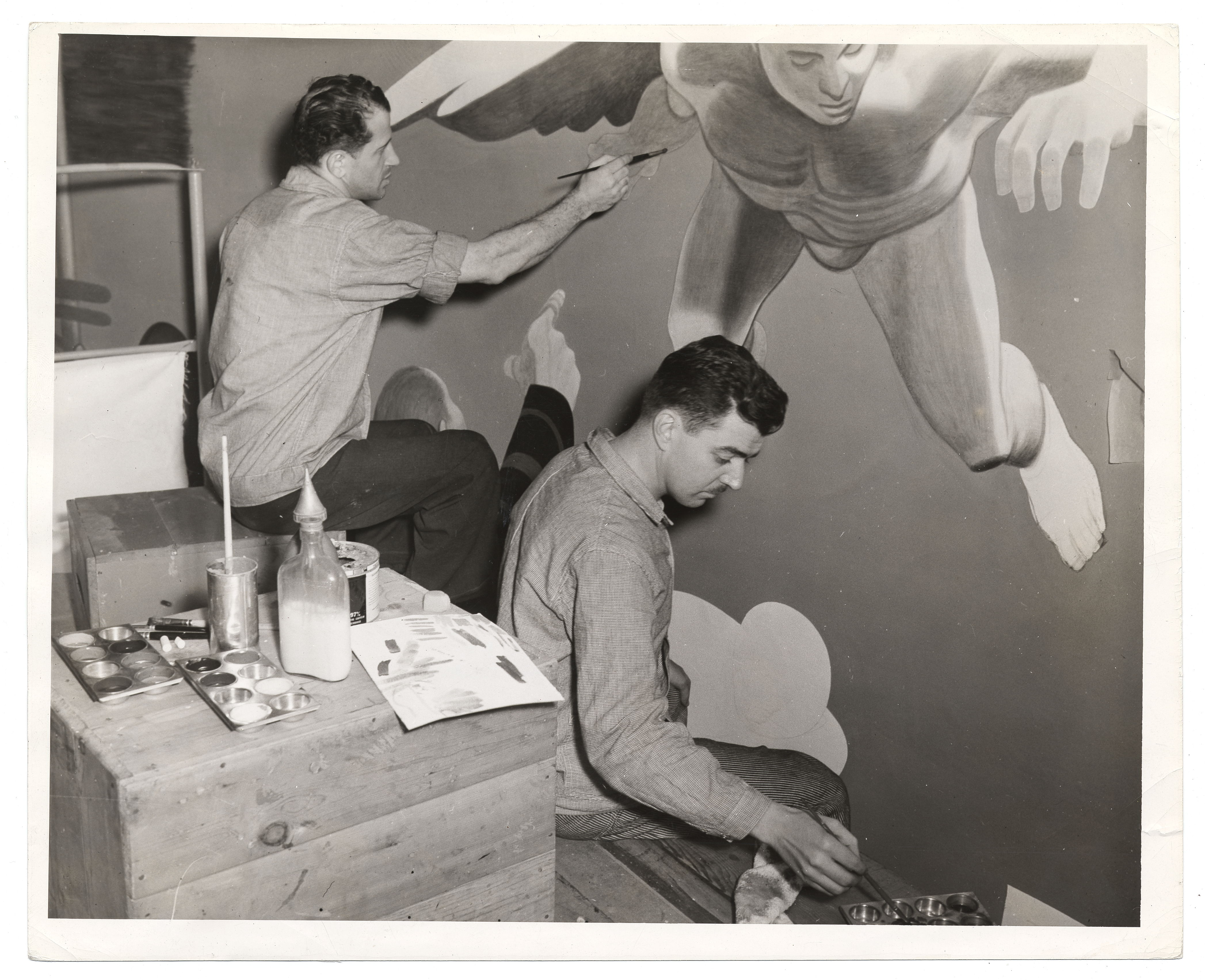 Photograph of James Brooks at work on a mural. Identification on verso (handwritten and stamped): New York City W.P.A. Art Project; Photography Division; 110 King Street Neg. No. 5078-1; Photog. Libsohn; Date: 8/21/40; Title: James Brooks working on mural; Location: North Beach Airport.